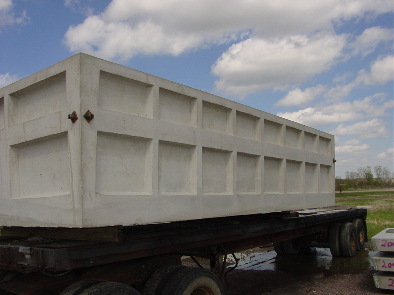 Storage of hazardous material, whether short-term or long-term, is an increasingly important environmental issue, calling for containers that not only seal in the materials, but are strong enough to stand up to natural disasters or terrorist attacks. Precast concrete products can be designed in all sizes and shapes to meet exact specifications to protect both the environment and the population. Products include: fuel storage vaults, spill containment products and a variety of other hazardous material containment elements.